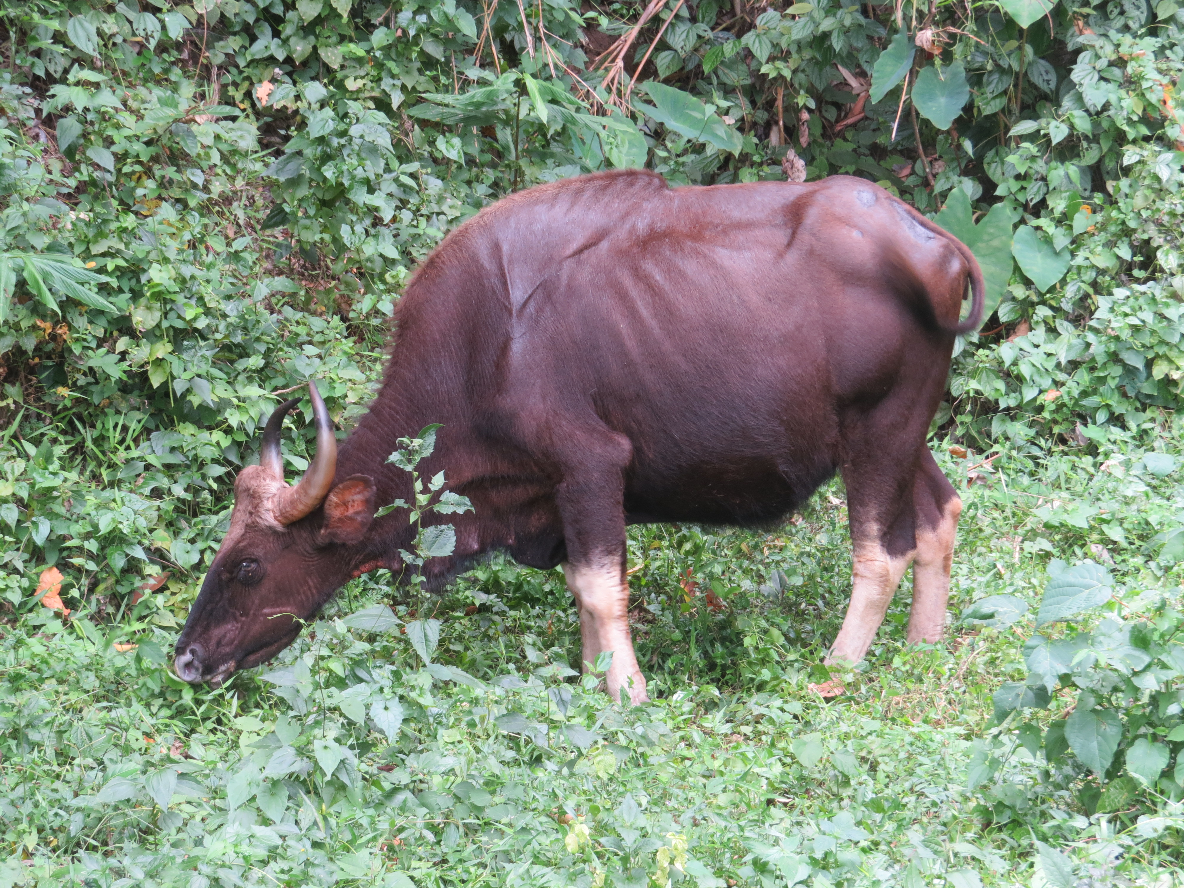 Photos from Parambikulam Tiger Reserve and its Pooppara section during the Butterfly Survey 2016